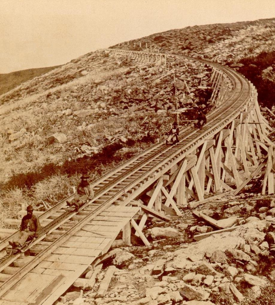 Sliding, Mt. Washington Railway -- showing railroad workers sliding down the tracks on what were dubbed "Devil's shingles."